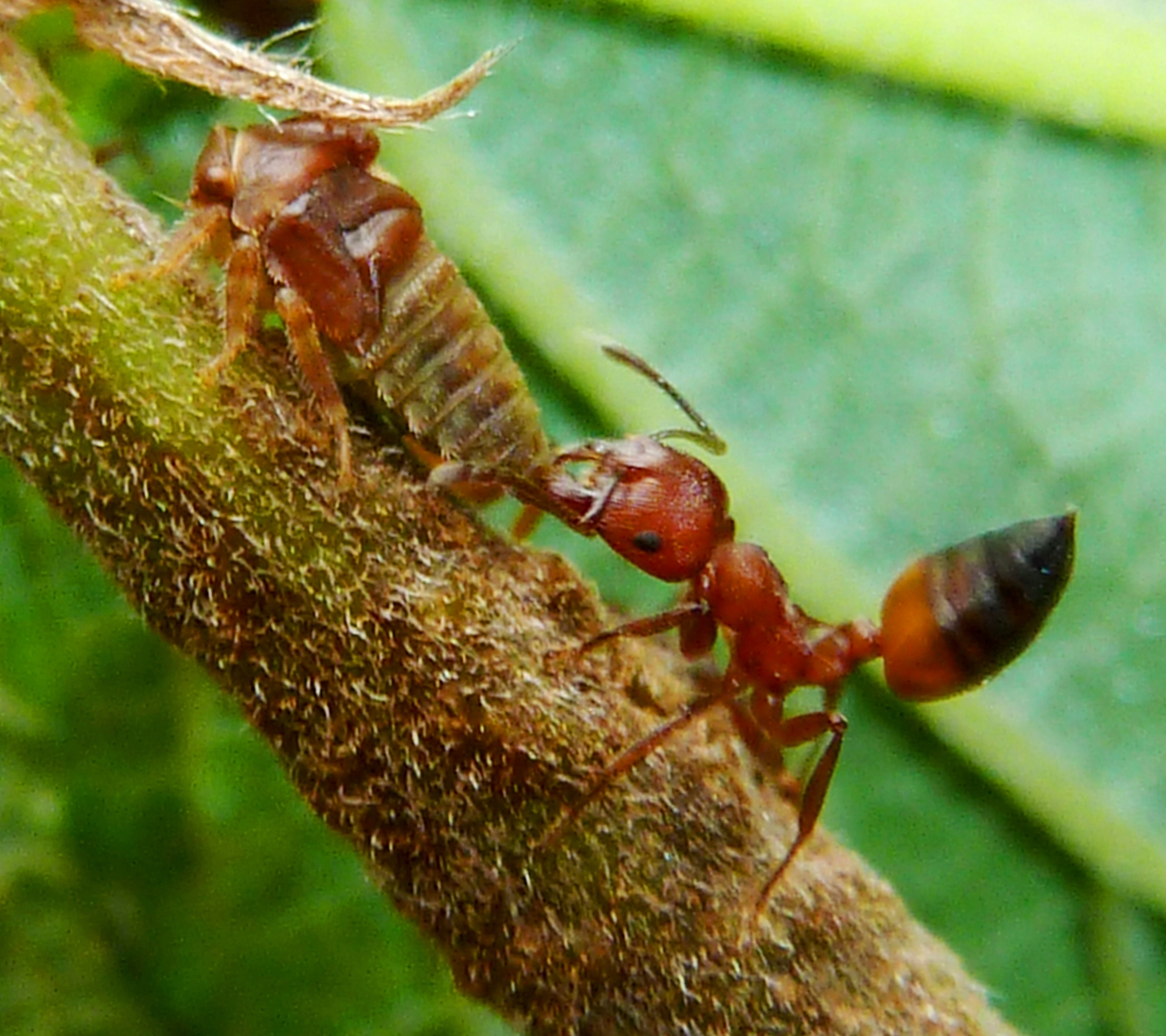 Red cocktail ant tending Oxyrhachis treehopper nymph on a terminal twig of a Pigeonwood tree (Trema orientalis) in Molweni valley, Krantzkloof Nature Reserve